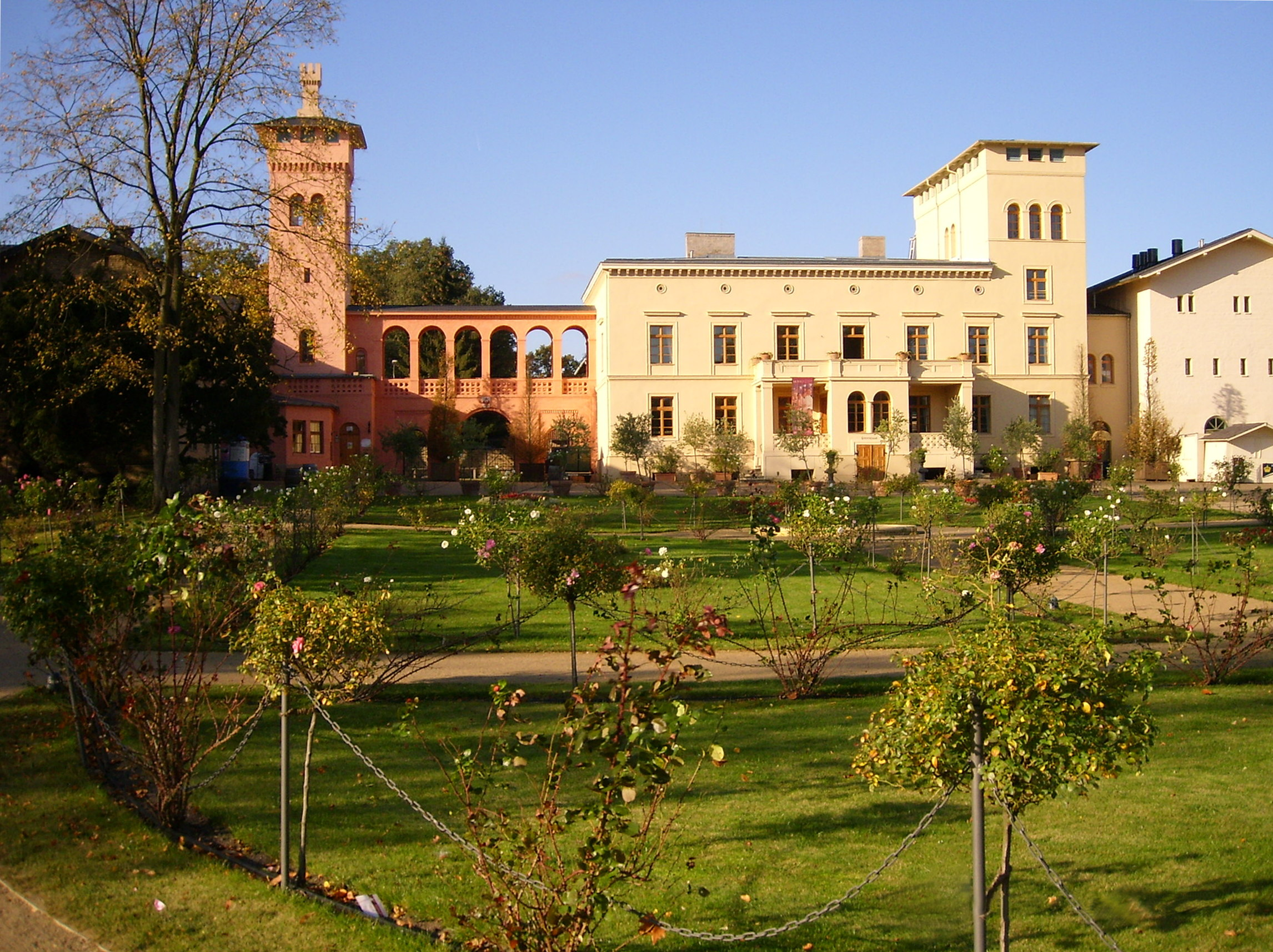 grounds and gardens of Bornstedt Crown Estate